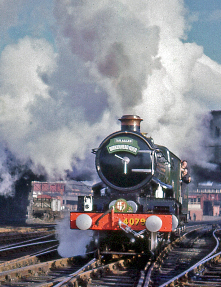 GWR 4079 Pendennis Castle at Chester General before hauling the return Birkenhead Flyer to Birmingham, 4 March 1967